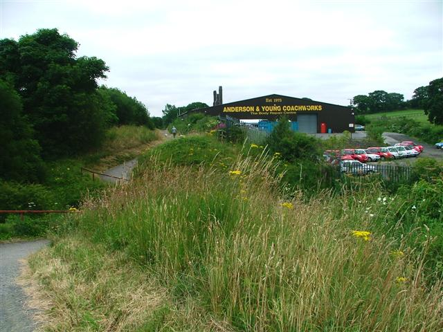 National Cycleway No. 14. Here running alongside a vehicle body repairers inhabiting the old goods yard and cattle dock of Witton Gilbert Station.